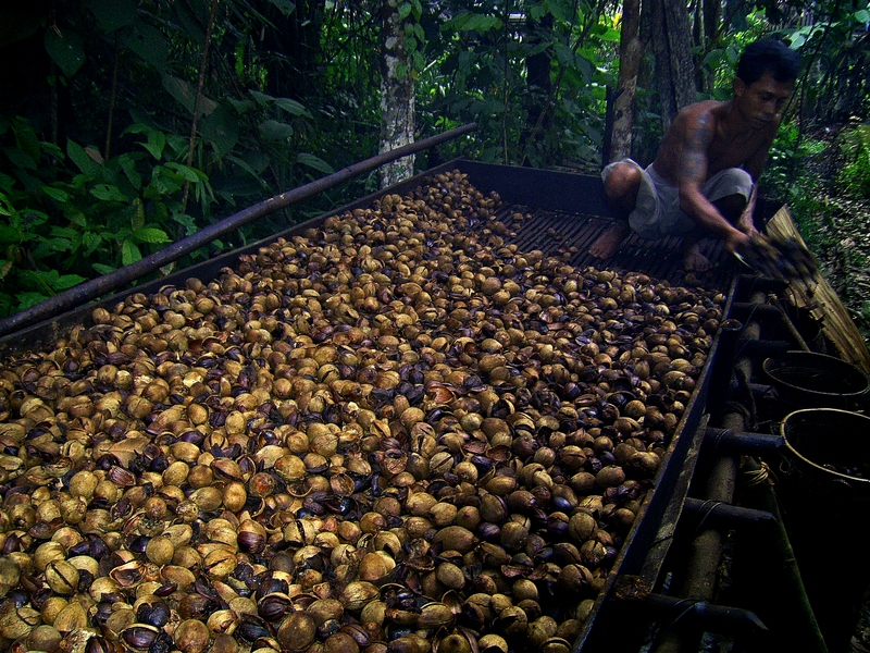 Illipe nut (Shorea sp.) after smoking. Sungai Utik, Kapuas Hulu, West Kalimantan, Indonesia